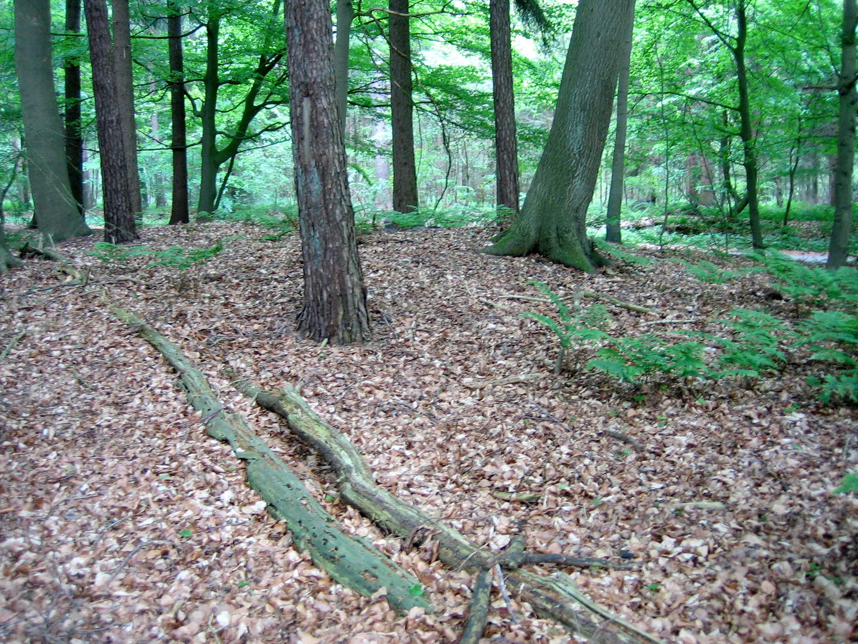 Huegelgrab Weissenberg Driftsethe